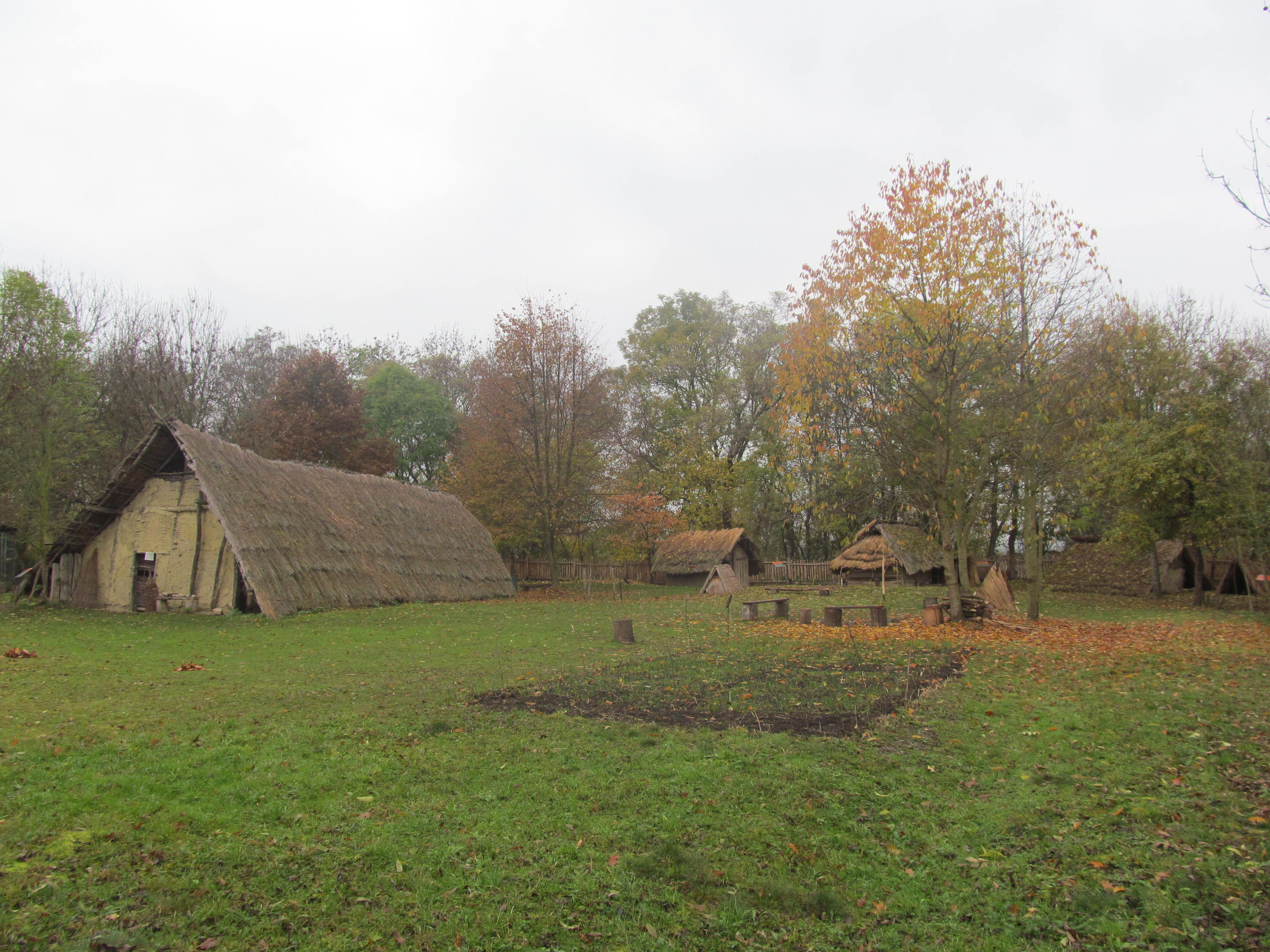 Archaeological open air museum in Březno - total view